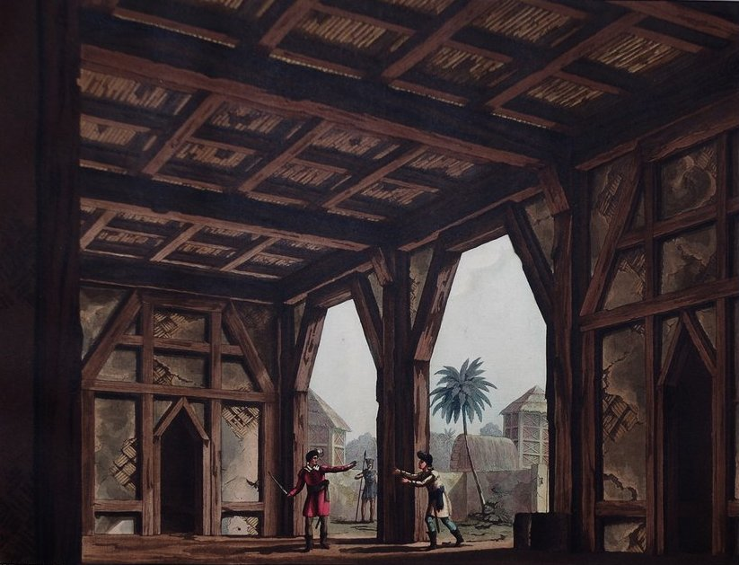 Recinto Presso le Abitazioni degli Illinesi (Enclosure at the Illinesi dwellings) Set design by Alessandro Sanquirico for opera 'Gl'illinesi' by Francesco Basili (libretto di Felice Romani), premiered at Milan in La Scala, 1819. Aquatint engraving with original hand color, after a drawing by Alessandro Sanquirico.